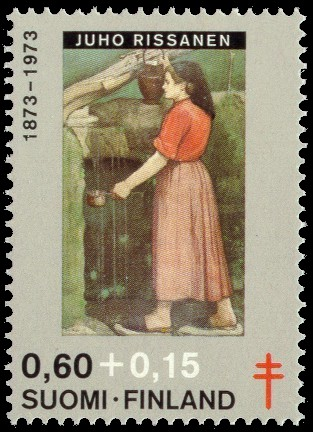 Postage stamp depicting a painting by the Finnish artist Juho Rissanen